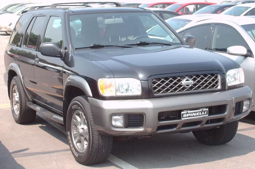 2000-2001 Nissan Pathfinder photographed in Montreal, Quebec, Canada.